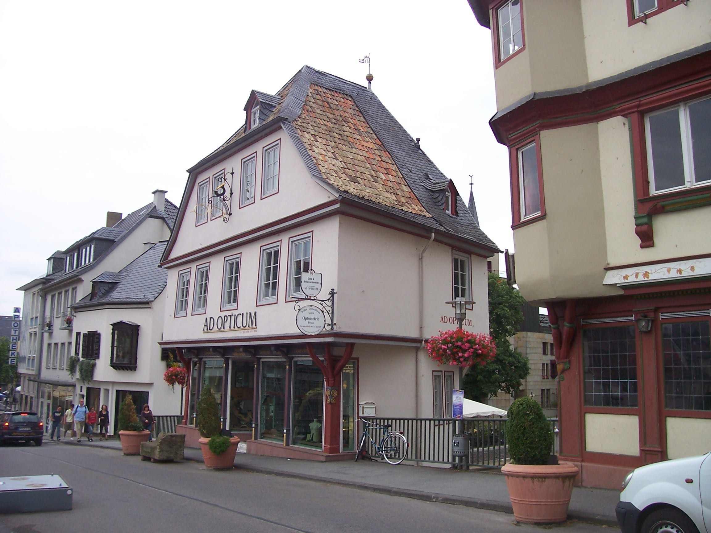 Mannheimer Straße 90: bridge hause, Bad Kreuznach